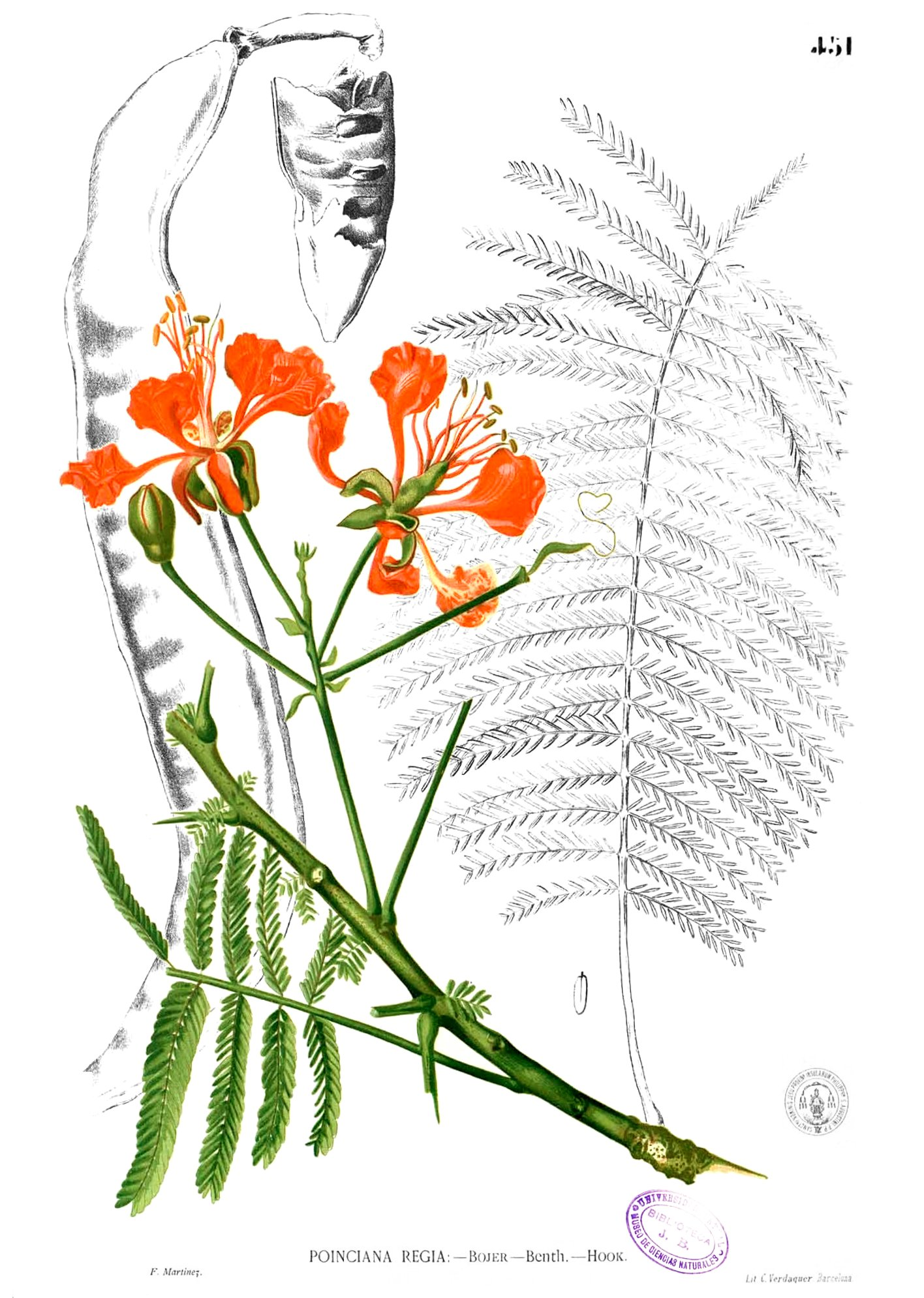 Plate from book